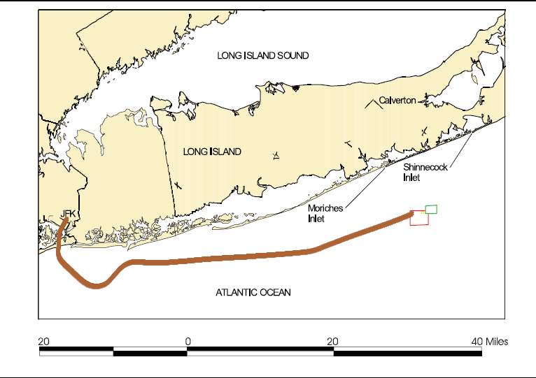 Illustration by NTSB of the TWA Flight 800 flight path. Image taken from the final report NTSB AAR-00/03 pg. 64